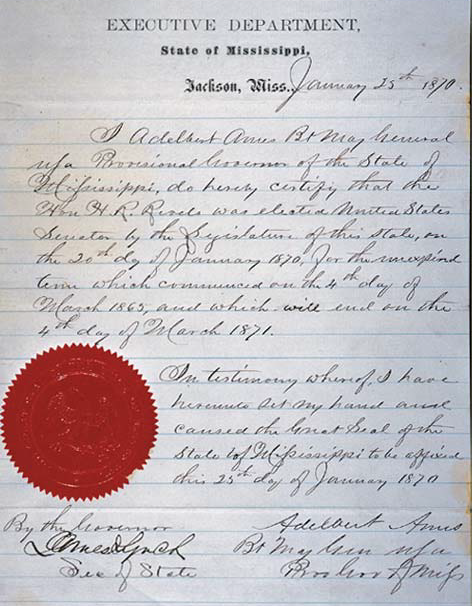 Letter, dated January 25, 1870, from the Executive Department of the State of Mississippi, certifying that Hiram Rhodes Revels was elected United States Senator by the Mississippi legislature on January 20, 1870.